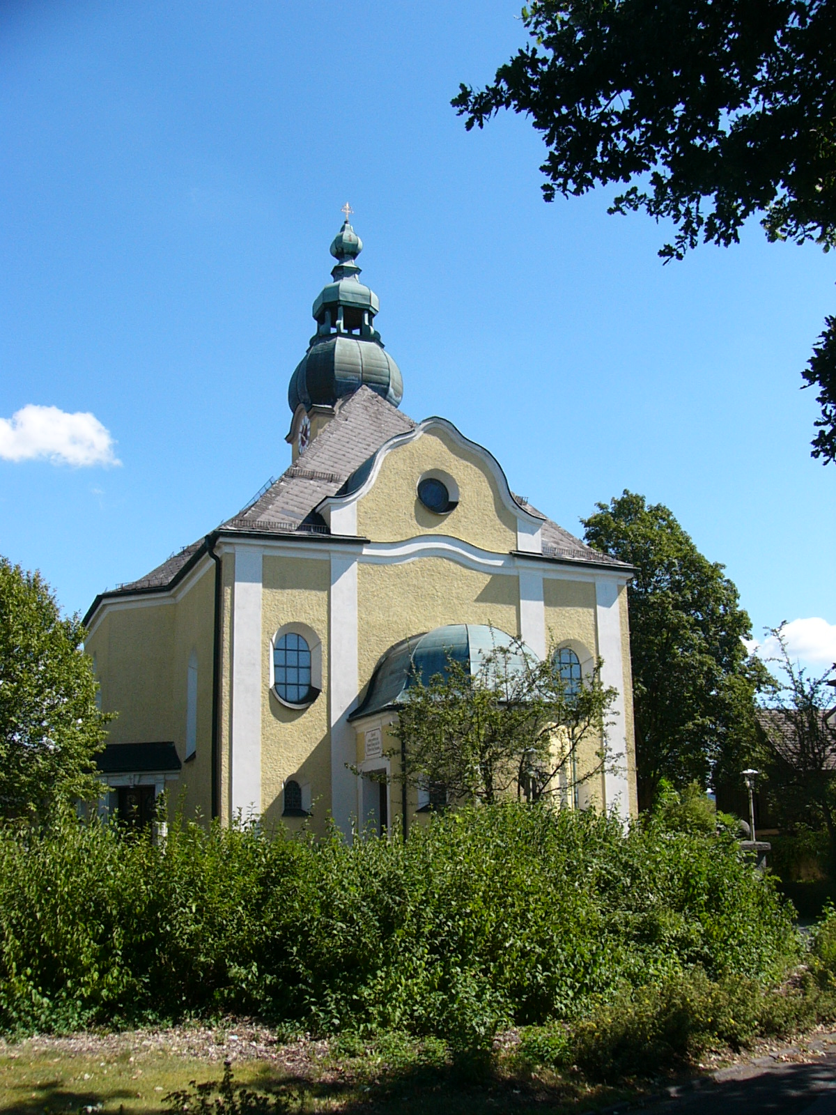 Plößberg, Landkreis Tirschenreuth